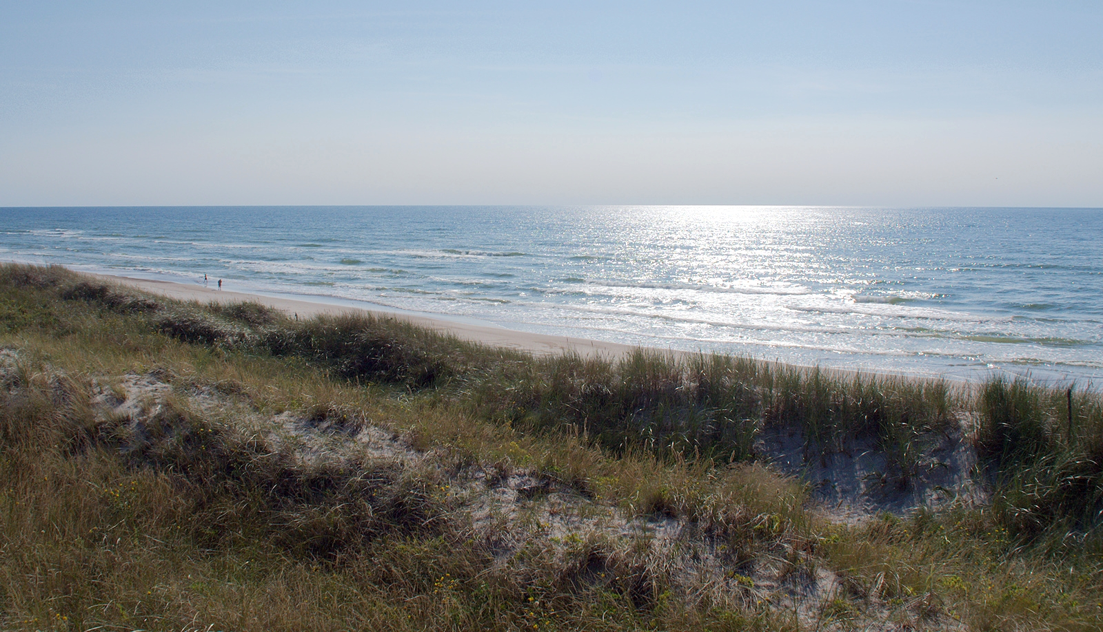 Baltic on Summer Afternoon